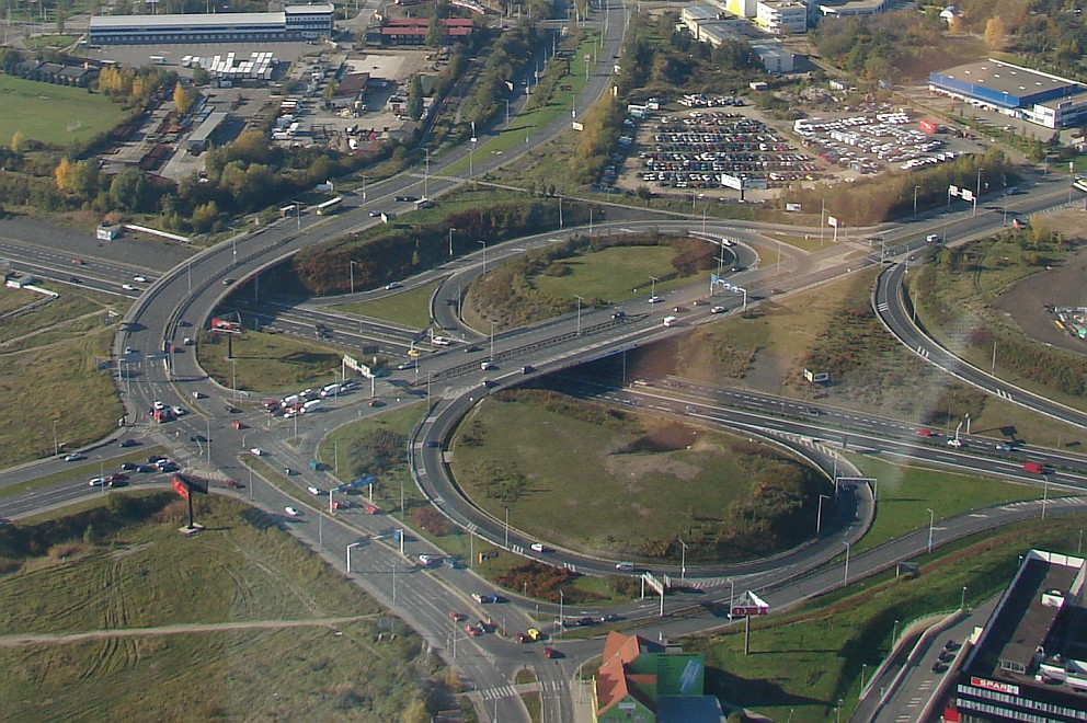 Intersection of Průmyslová, Černokostelecká and Štěrboholská radiála in Prague (Šterboholy district), Czech Republic